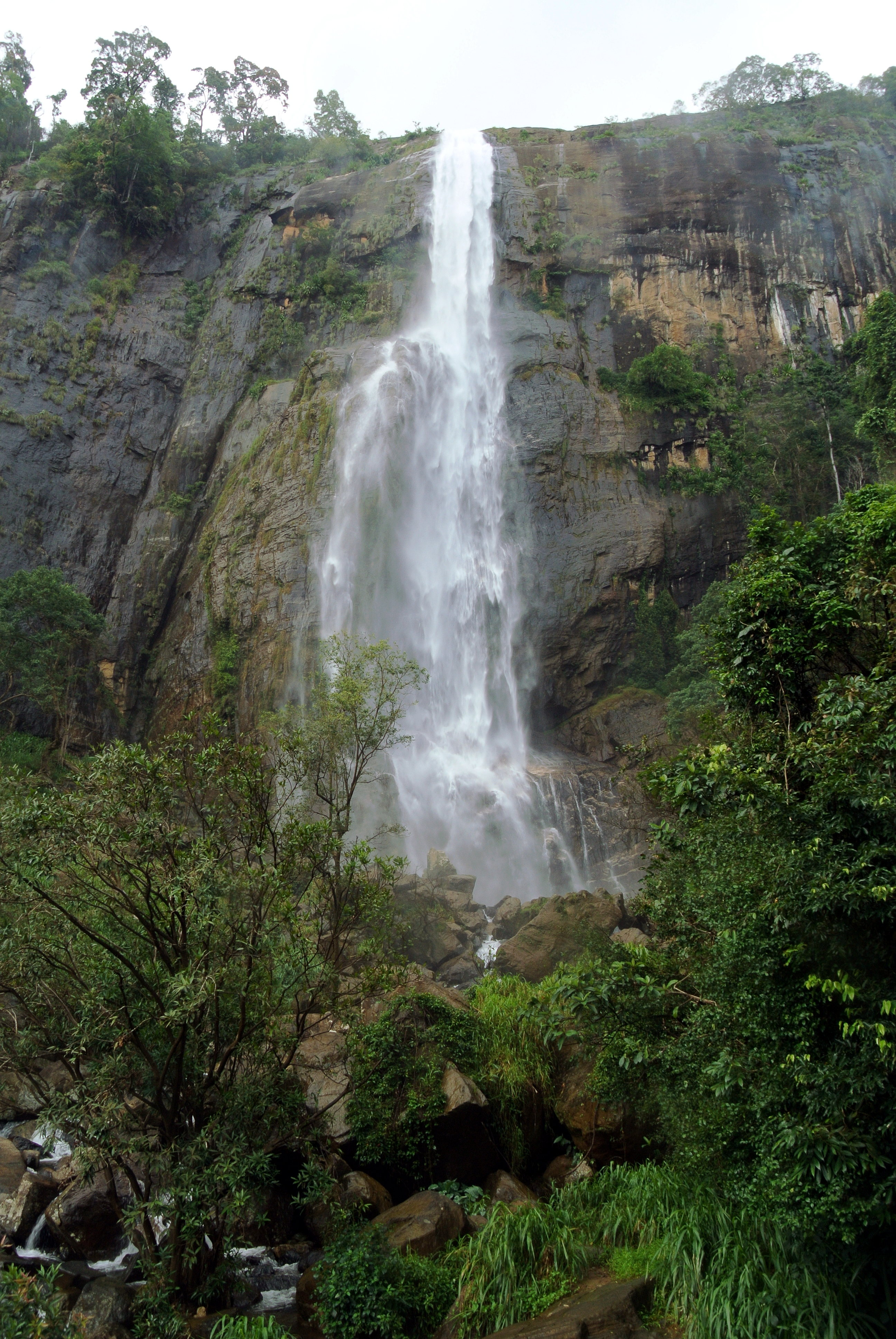 The Diyaluma Falls near Koslanda, Sri Lanka.